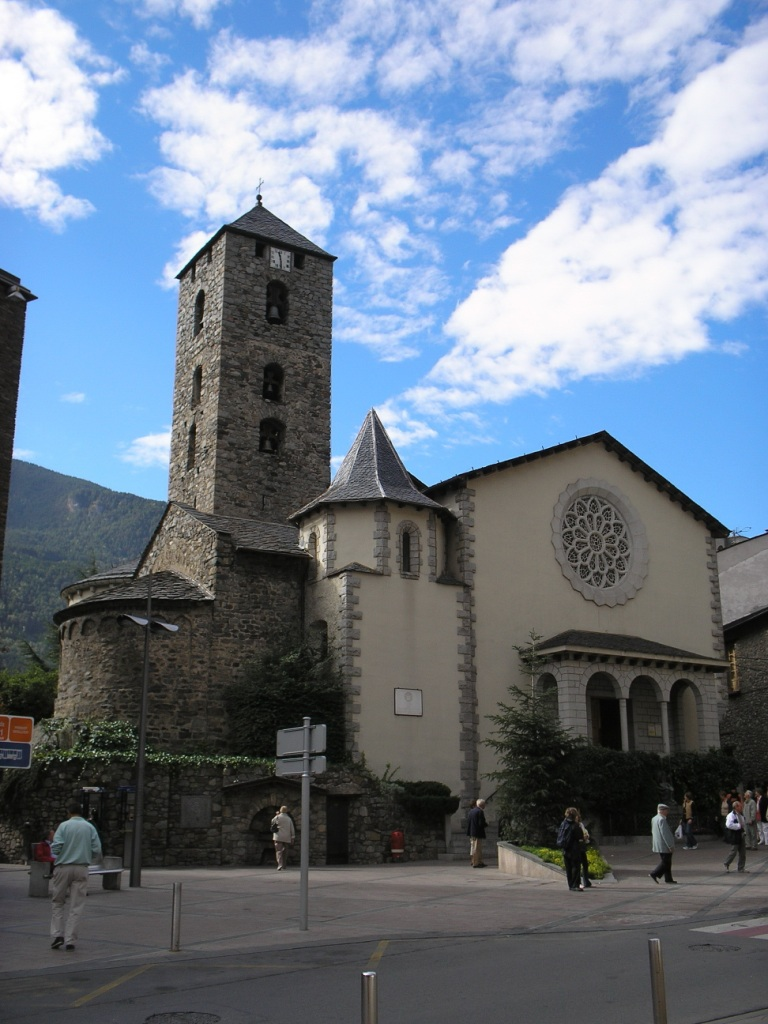 Església de Sant Esteve, Andorra la Vella, Andorra